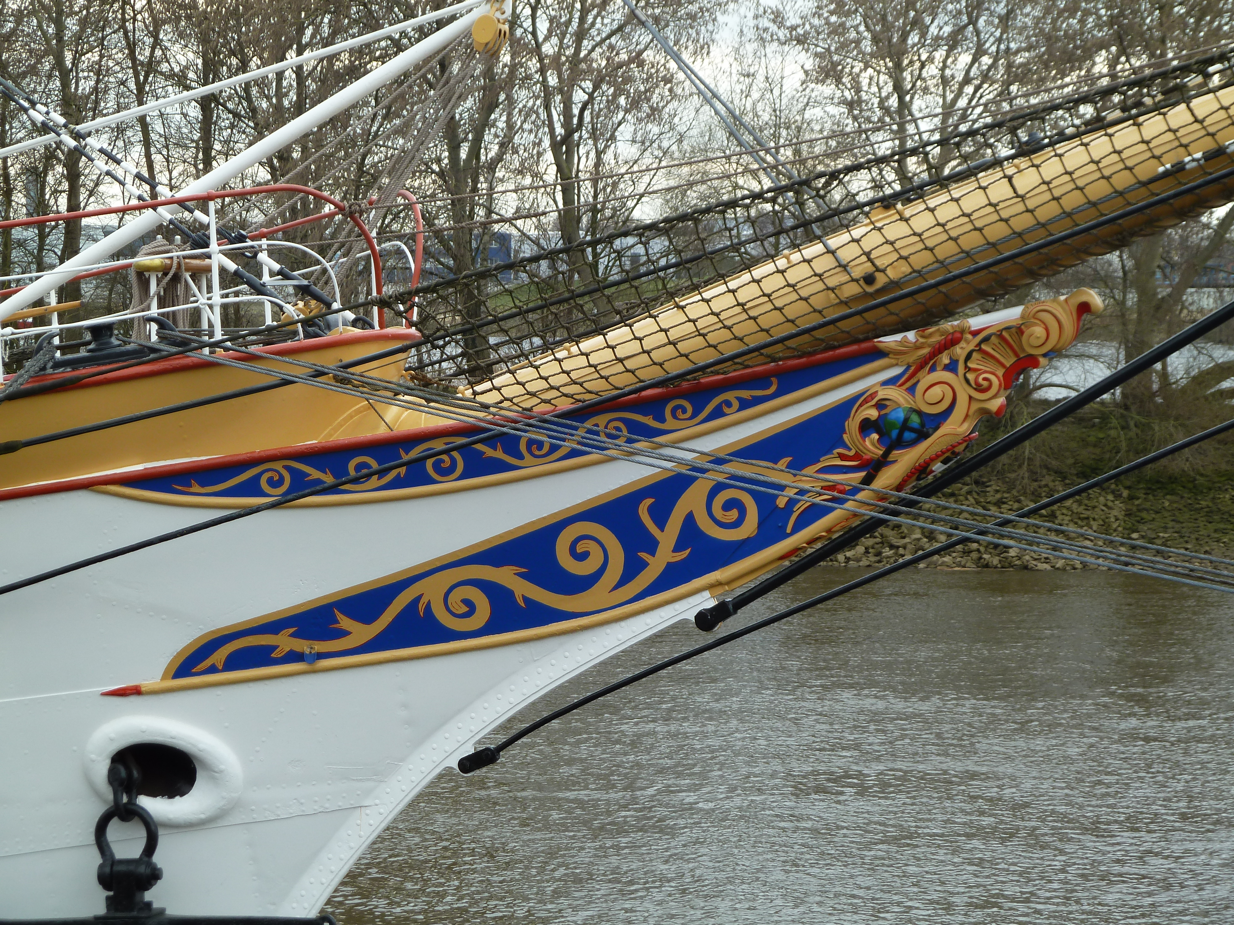 figurehead of Schulschiff Deutschland